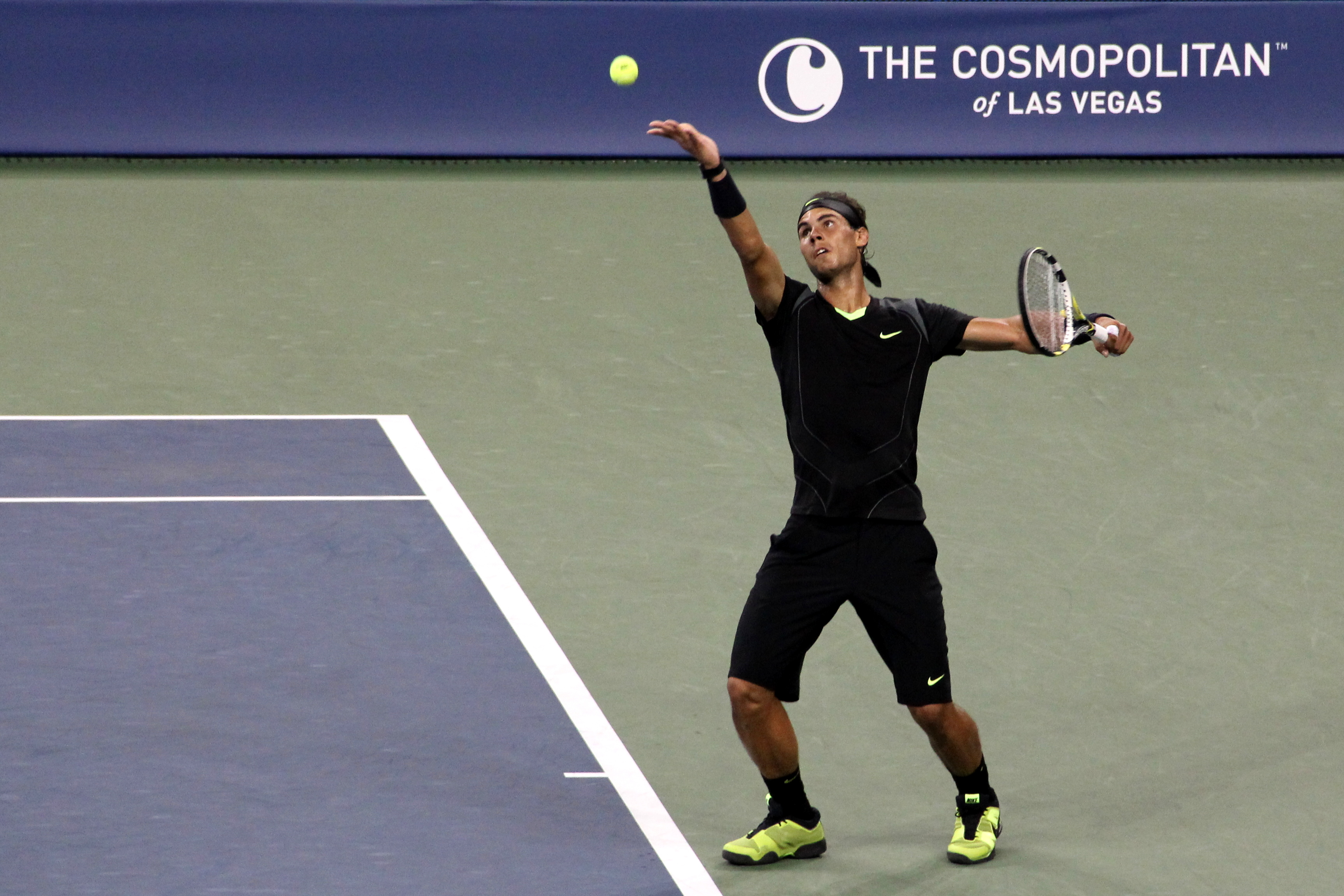 Nadal vs. Lopez match on Tuesday night, 9/7 at the US Open. The Cosmopolitan is in New York for the 2010 US Open, inviting attendees and guests to experience signature views from our Overlook and in our custom designed suite with prime-stadium seating. For more information on The Cosmopolitan visit